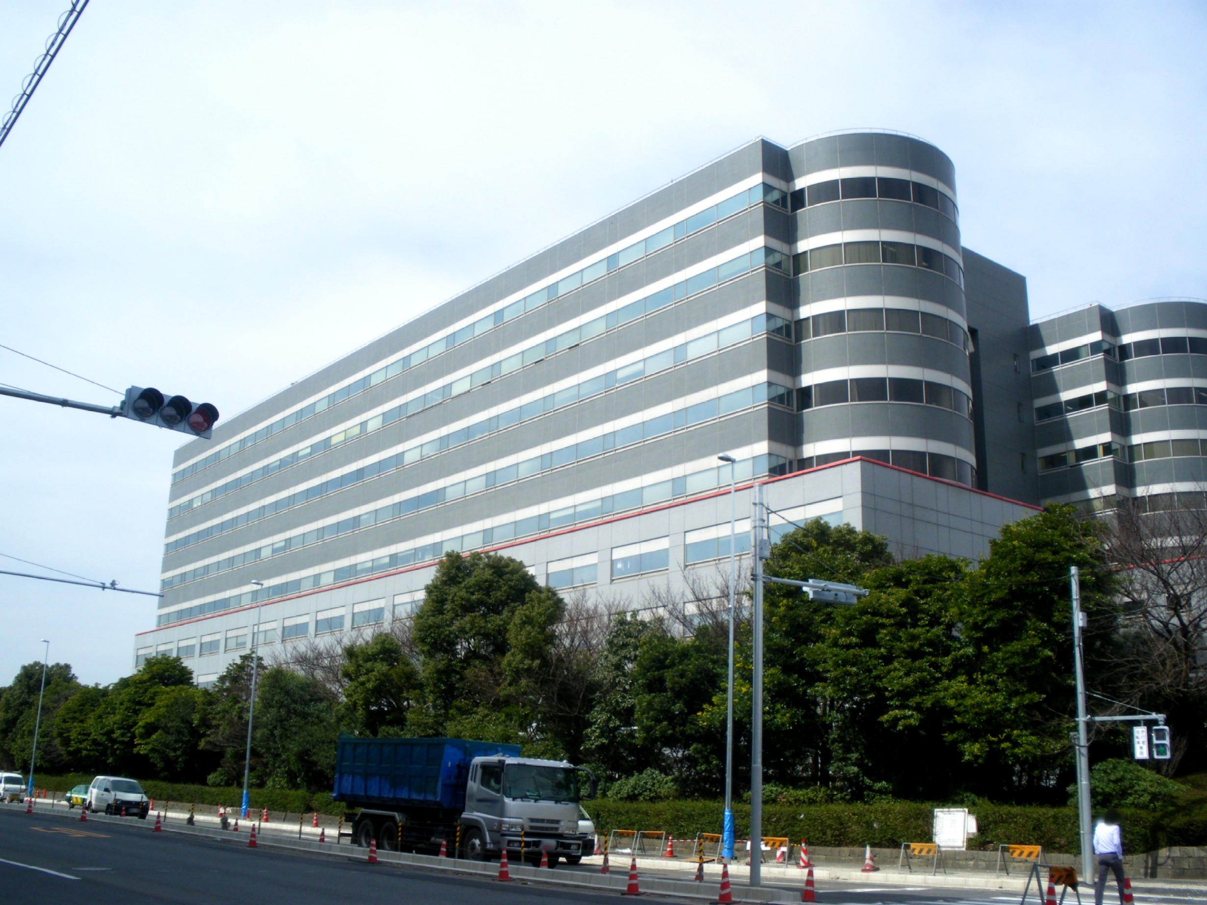 office building of Central Wholesale Market Ota Market.